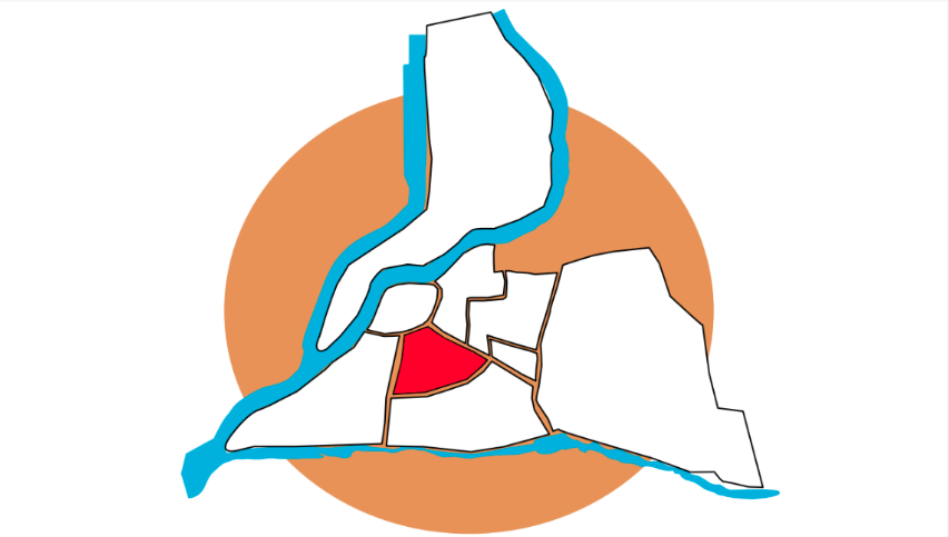 Localisation du quartier Rocade Nord de la ville d'Avignon.